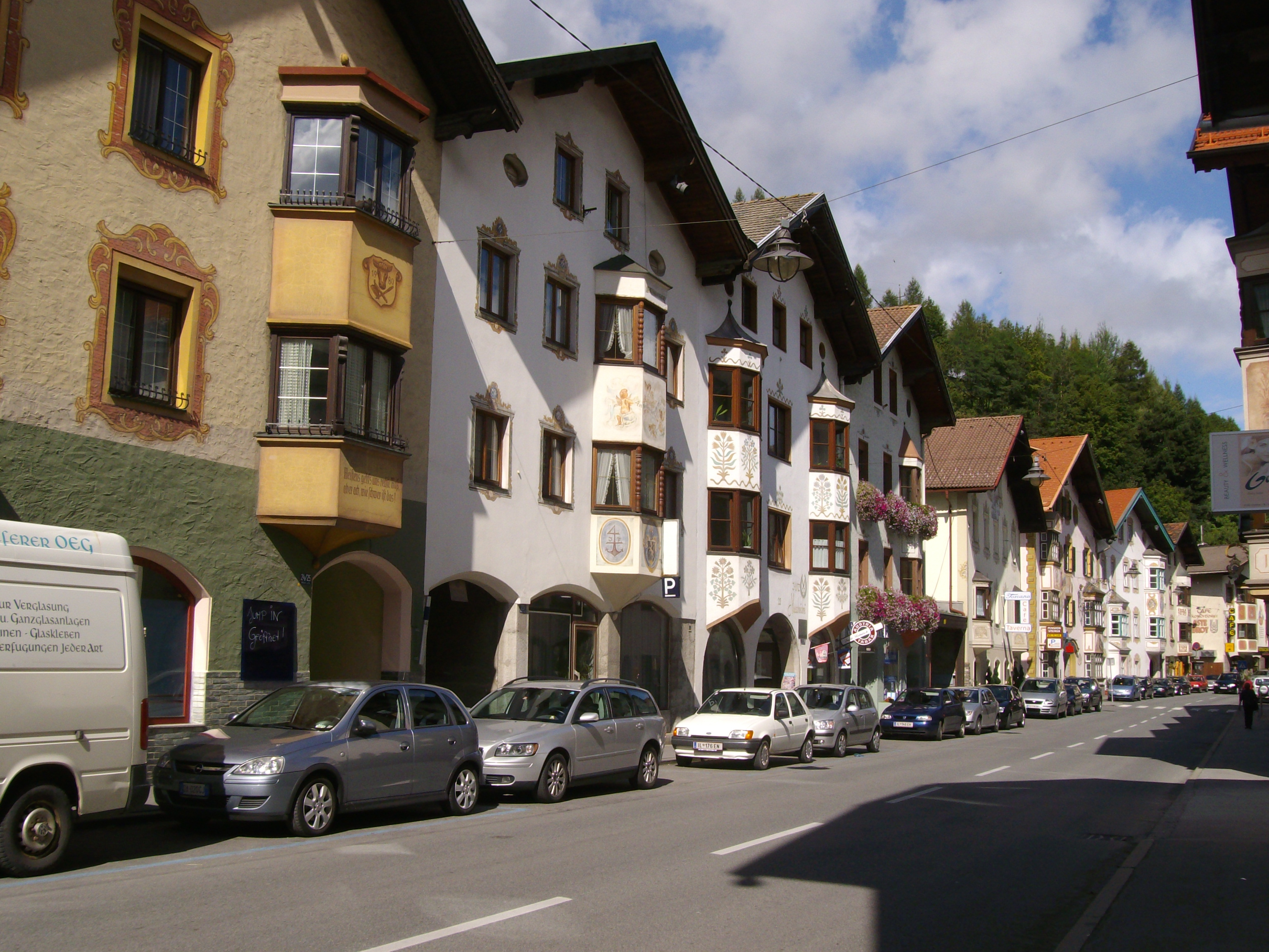 Austria, Tyrol (state), Matrei am Brenner. Main street.